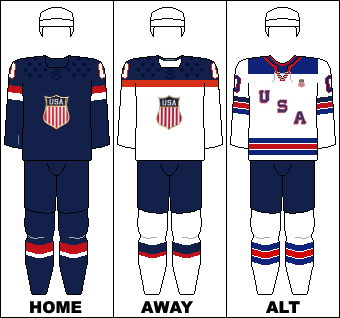 The home and away jerseys of the U.S. national ice hockey team used at the 2014 Winter Olympics.